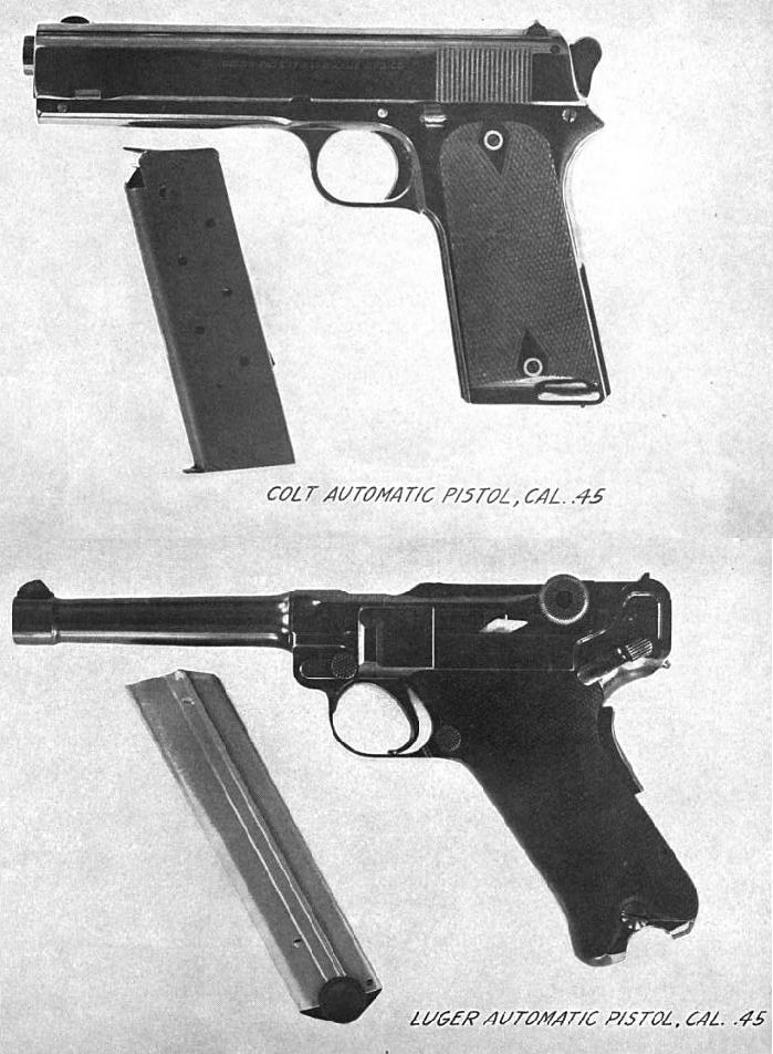 The .45 ACP Luger, and the Colt model 1905 pistols, submitted for testing by the US War Department. Photos from: War Department, U. S. A. Annual Reports, 1907 Volume VI Report of the CHIEF OF ORDNANCE